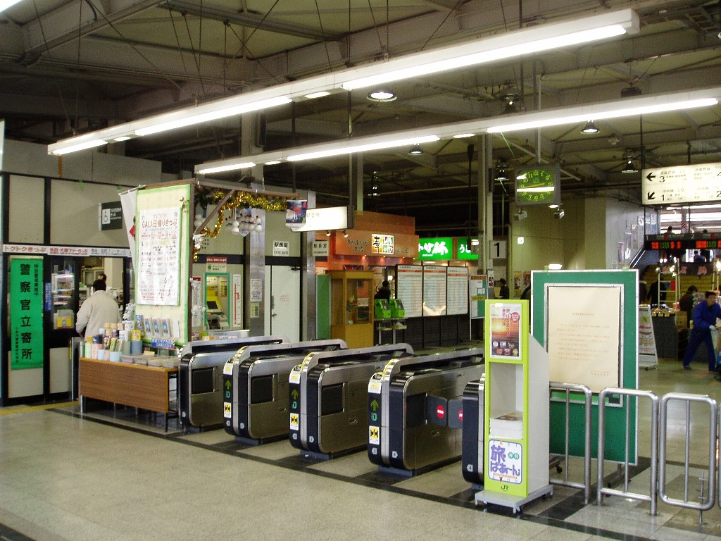 Entrance gate of Nishi-Kokubunji Station